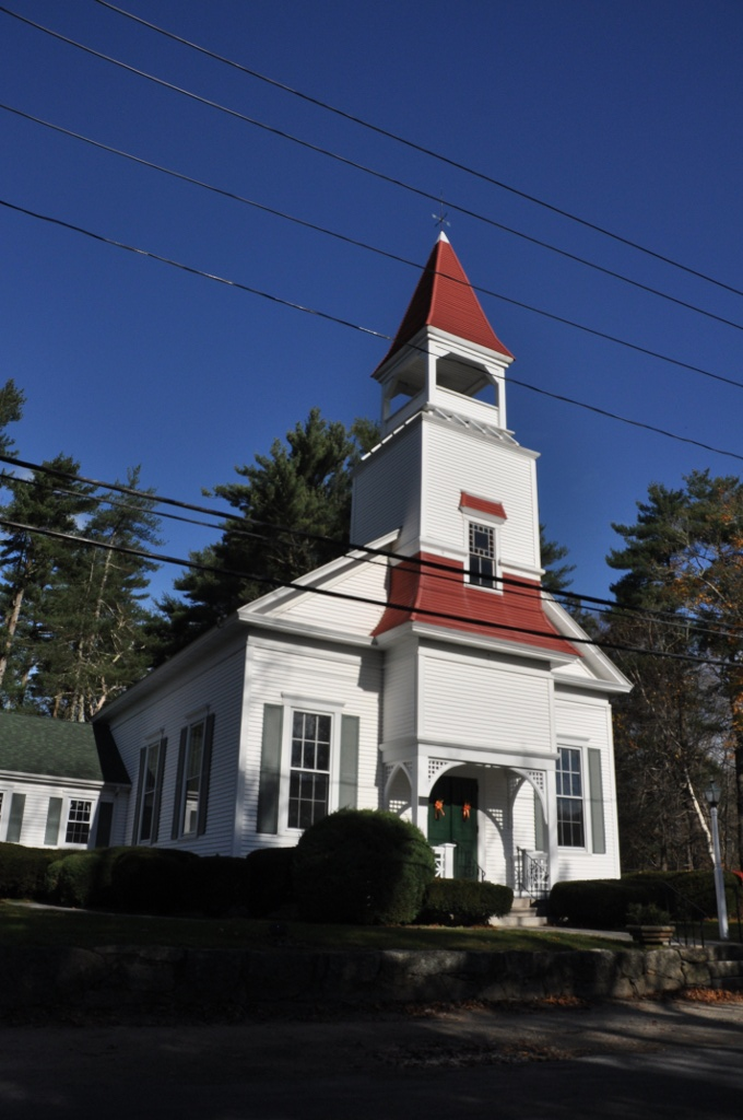 The East Freetown Congregation Church, part of the East Freetown Historic District of Freetown, Massachusetts.